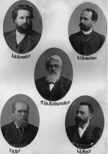 Moscow neurologists: S.S. Korsakov, G.I. Rossolimo, A.Ya. Kozhevnikov, V.K. Rot, L.S. Minor.